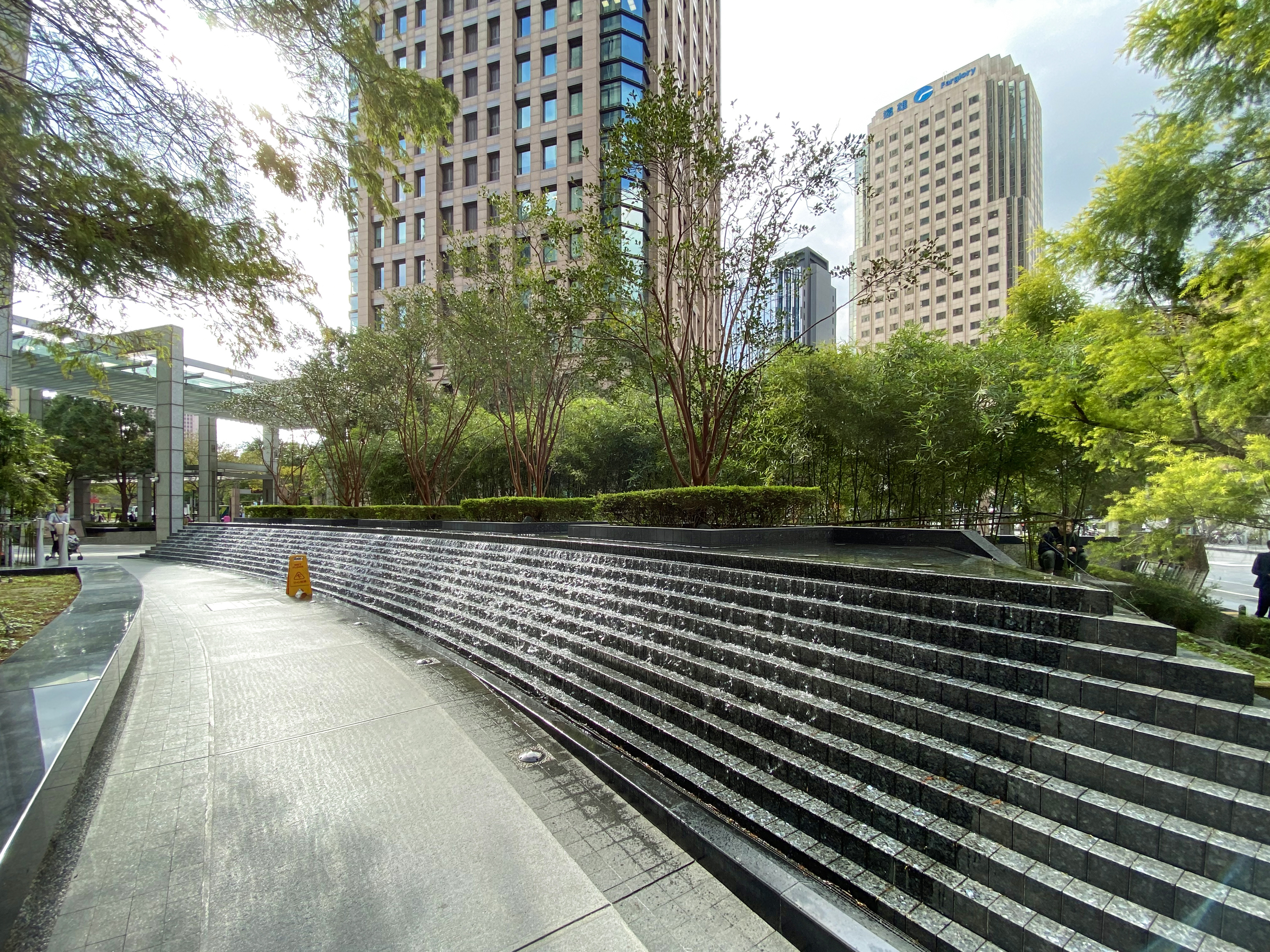 President International Tower